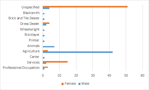 Chart showing occupations in Gisleham in 1881